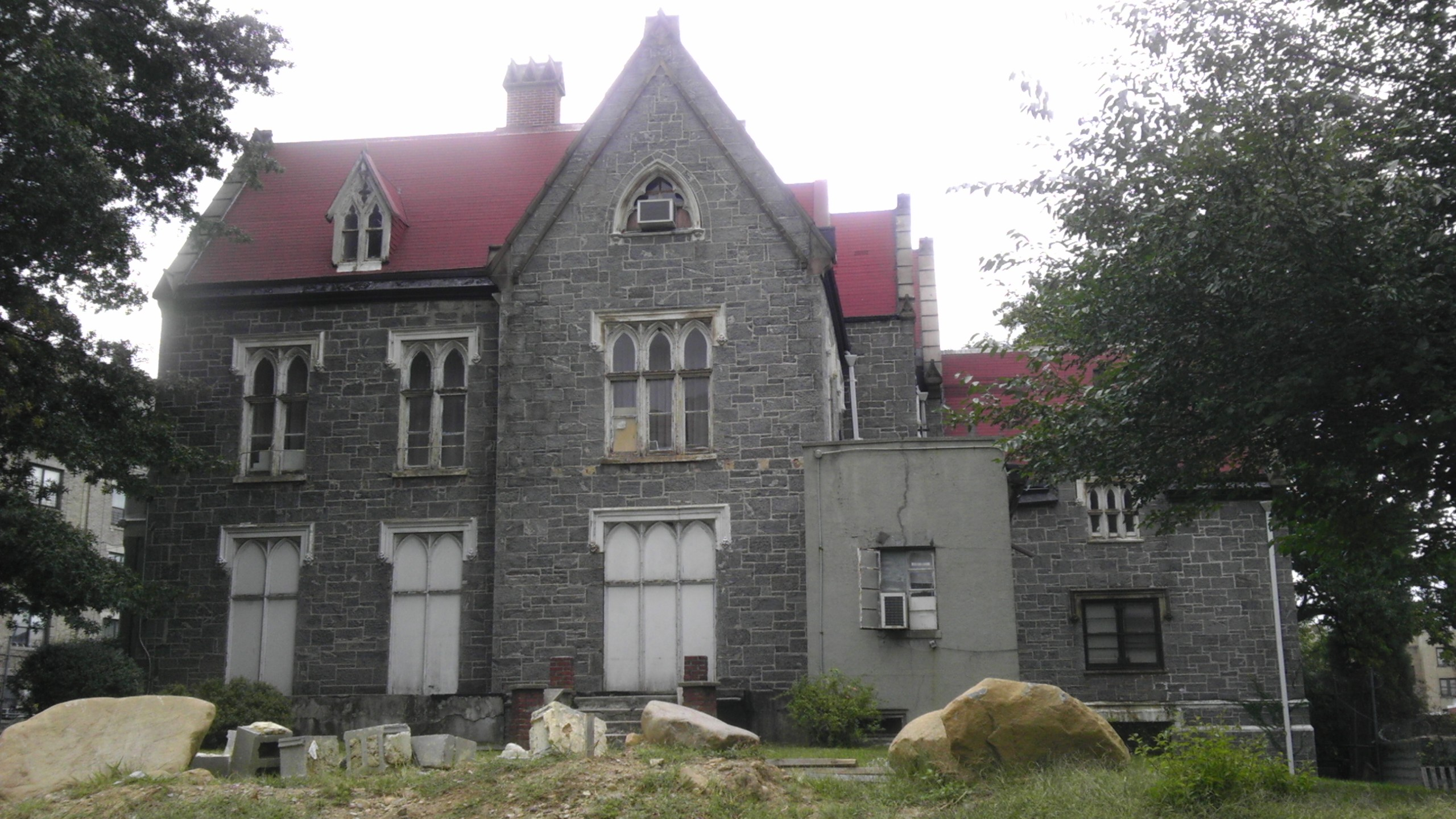 Sunnyslope